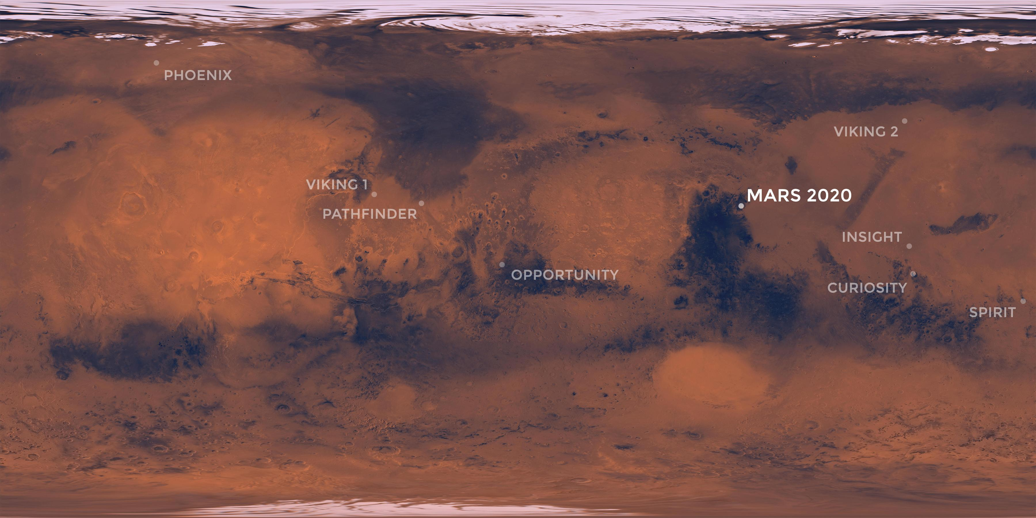 PIA23518: Map of NASA's Mars Landing Sites This map of the Red Planet shows Jezero Crater, where NASA's Mars 2020 rover is scheduled to land in February 2021. Also included are the locations where all of NASA's other successful Mars missions touched down. JPL is building and will manage operations of the Mars 2020 rover for the NASA Science Mission Directorate at the agency's headquarters in Washington. For more information about the mission, go to